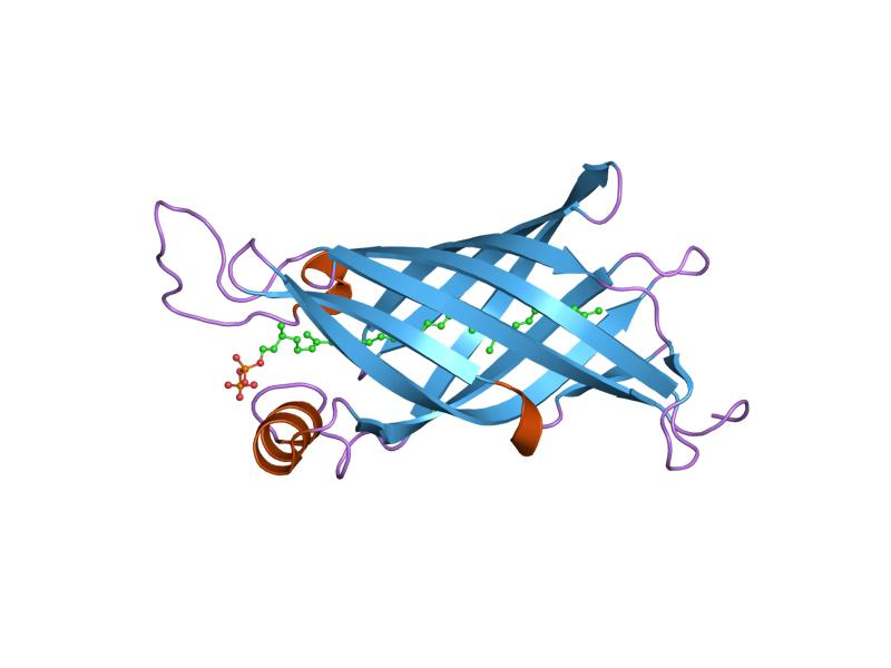 Cartoon representation of the molecular structure of protein registered with 1wub code.